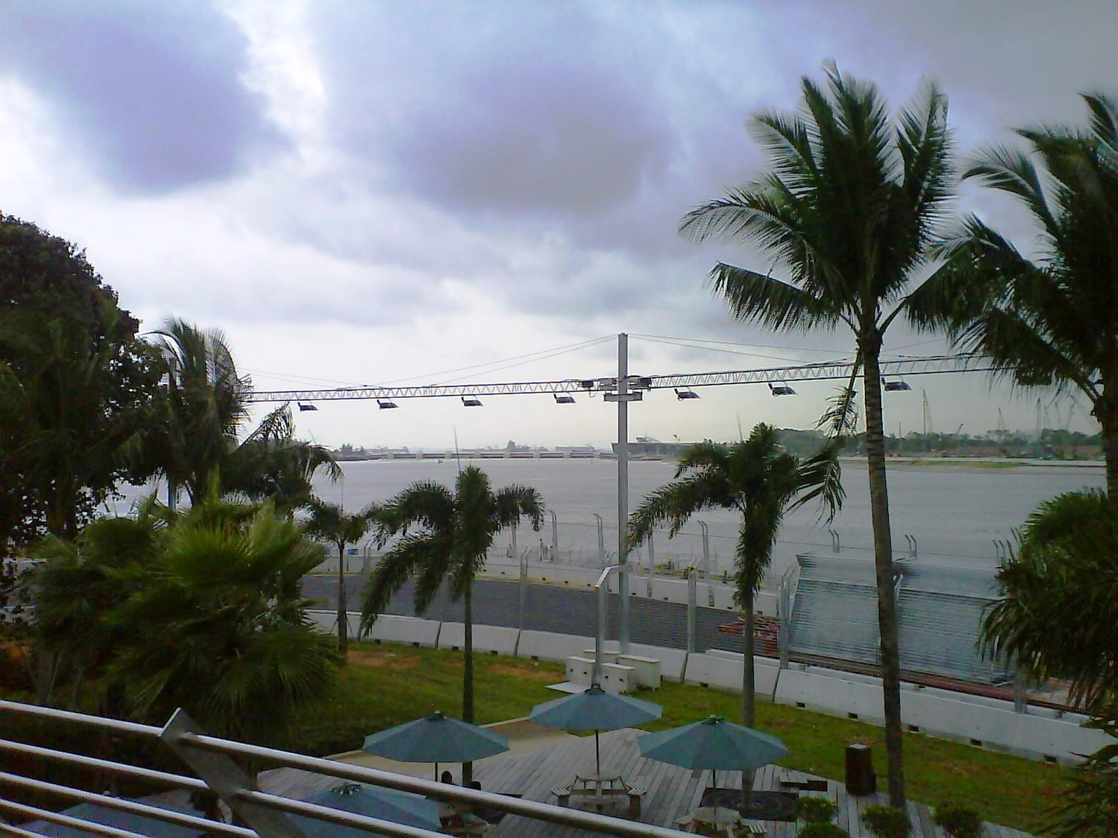 Turn 22 of the Singapore Street Circuit